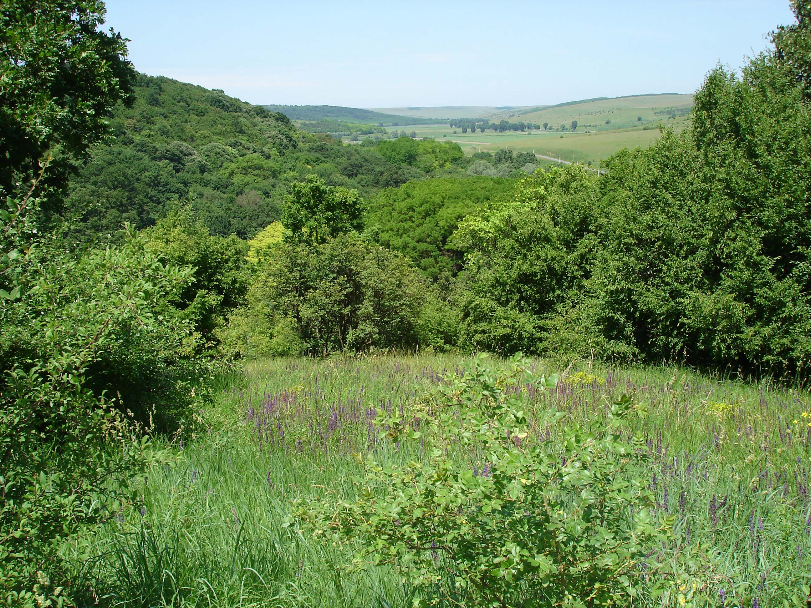 Landscape & vegetation in the Codru scientific environmental area, Moldova